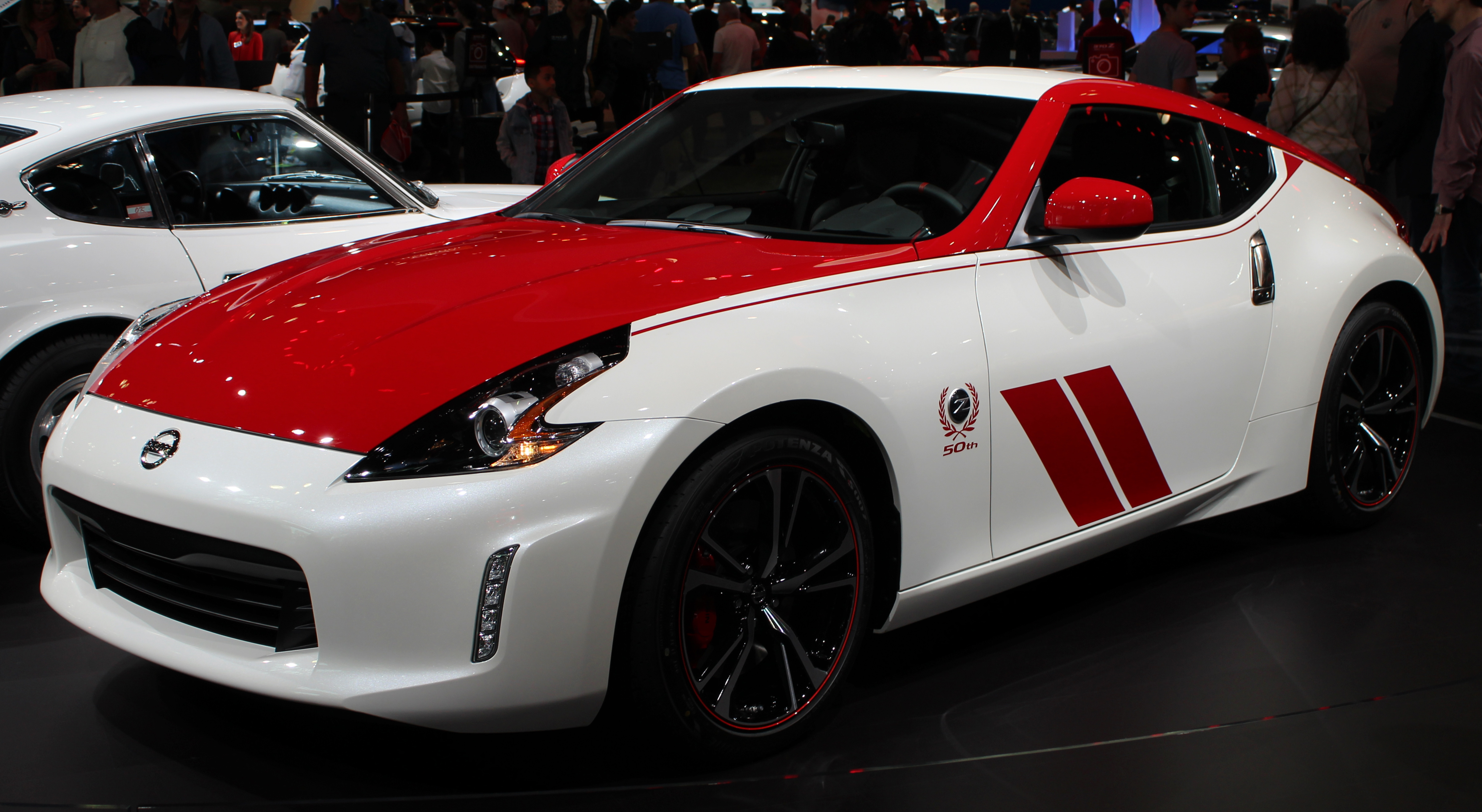 A 2020 Nissan 370Z 50th Anniversary Edition photographed during the 2019 New York International Auto Show, in Hudson Yards, Manhattan, NYC